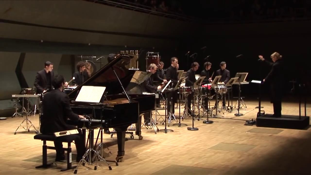 The Ensemble InterContemporain performs "Ionisation" by Edgard Varèse in the Cite de la Musique, Paris, conducted by Susanna Malkki.